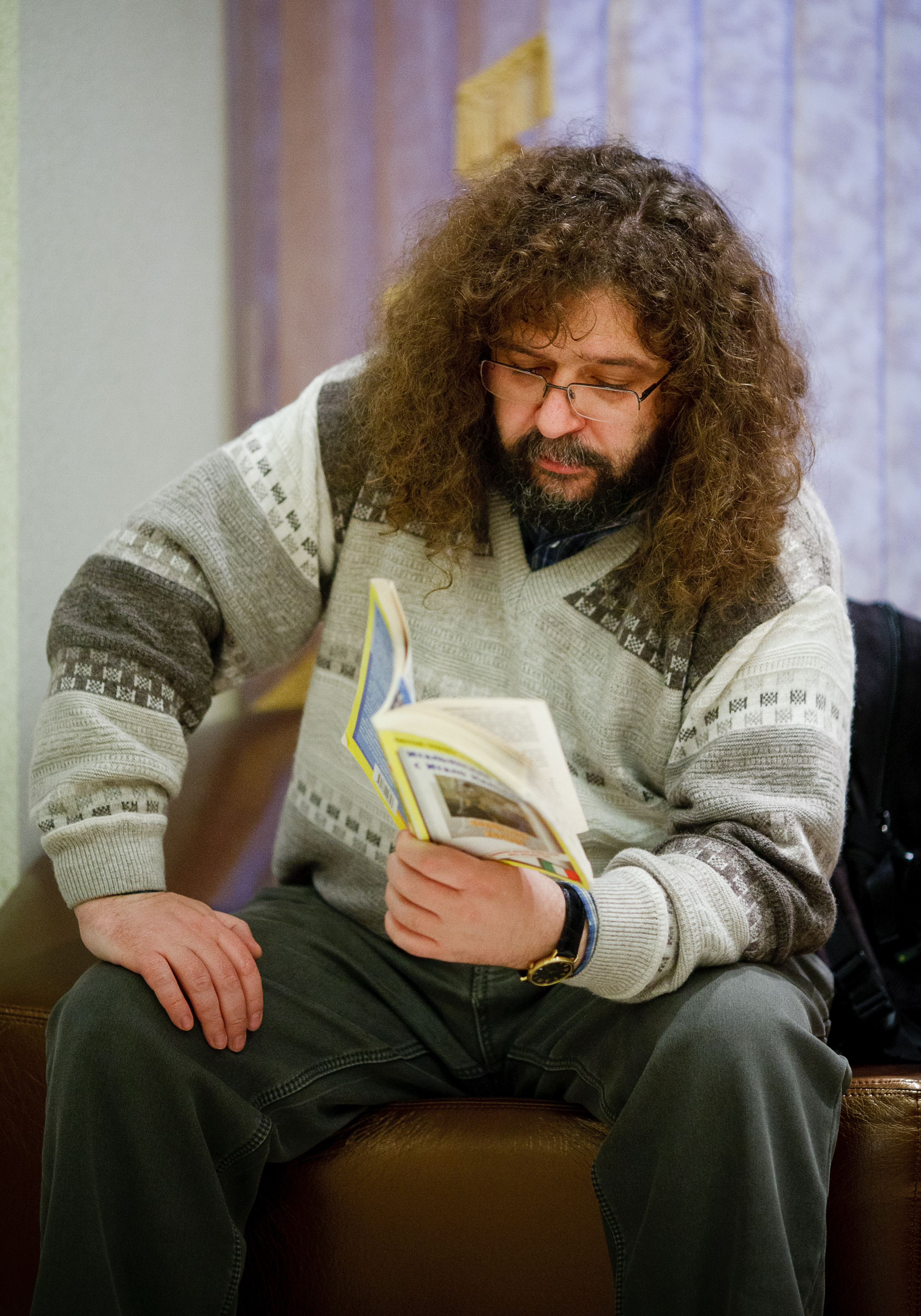 Igor Pilshchikov